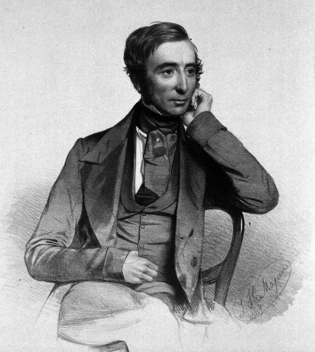 George Busk, British Naval surgeon, zoologist and palaeontologist.